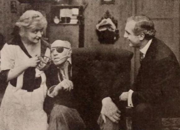 Still from the American crime drama film Blindfolded (1918) with Bessie Barriscale, the two actors unidentified, on page 25 of the April 20, 1918 Exhibitors Herald.